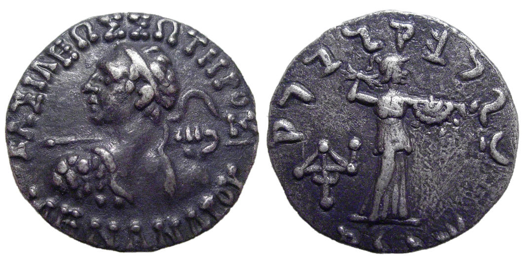 Example of a drachm from the reign of Menander I